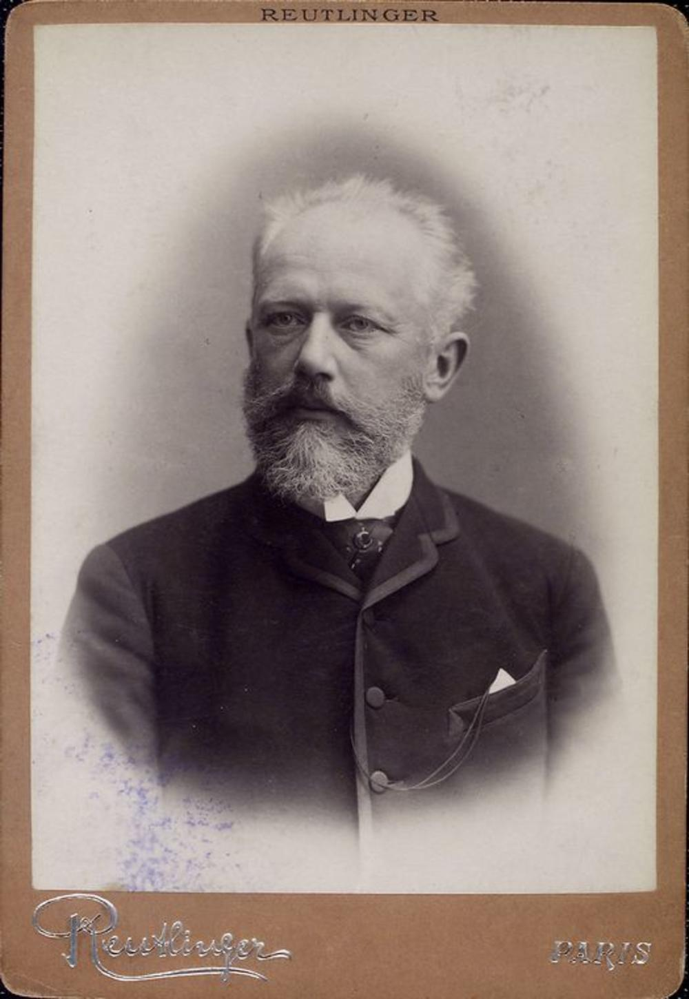 Cabinet card portrait of Pyotr Ilyich Tchaikovsky